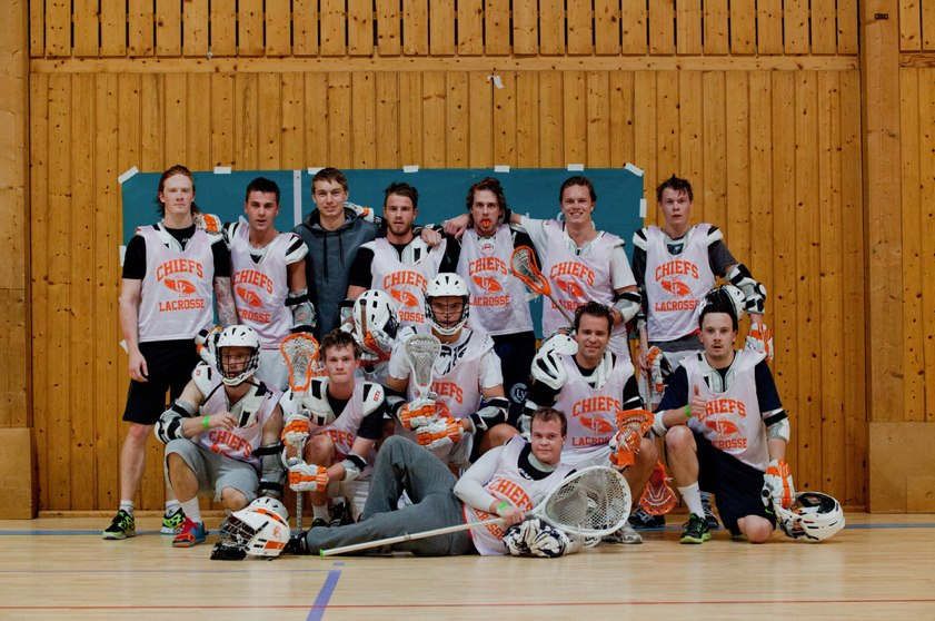 Lagbilde